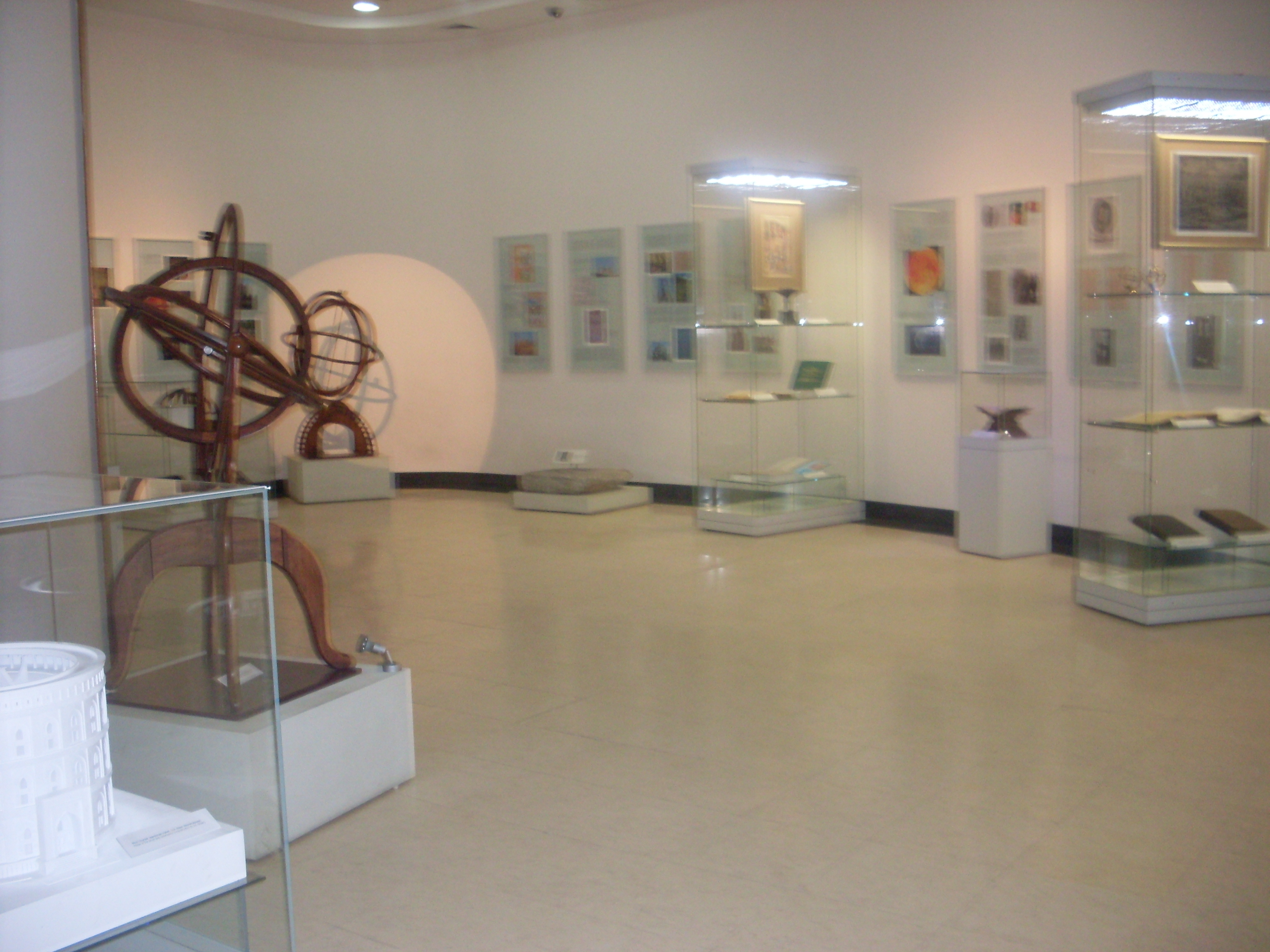 Observatie Ulugbek in Museum - Обсерватория Улугбека в музее